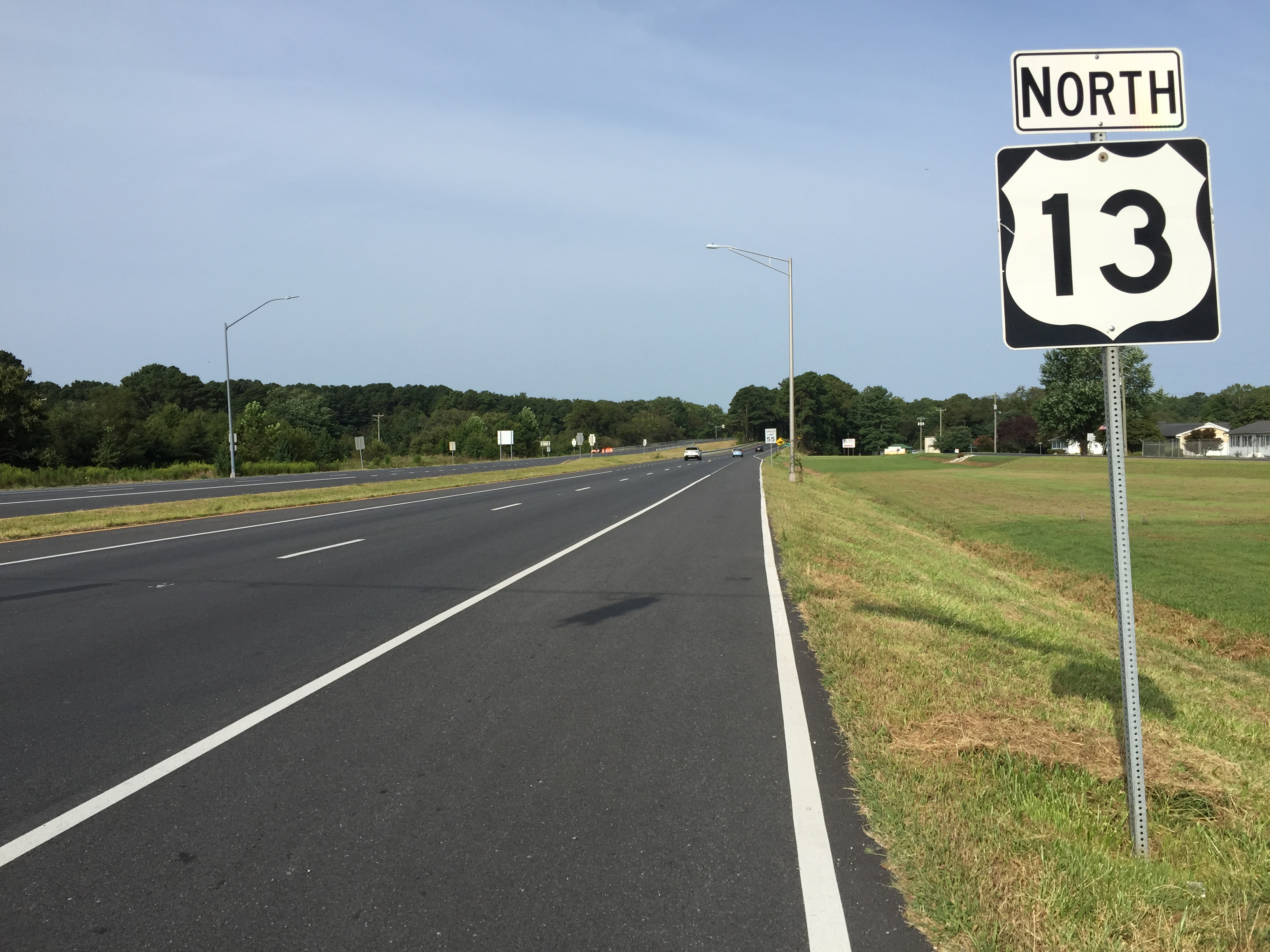 View north along U.S. Route 13 (Ocean Highway) at Maryland State Route 364 (Dividing Creek Road) and U.S. Route 13 Business (Market Street) in southern Somerset County, Maryland